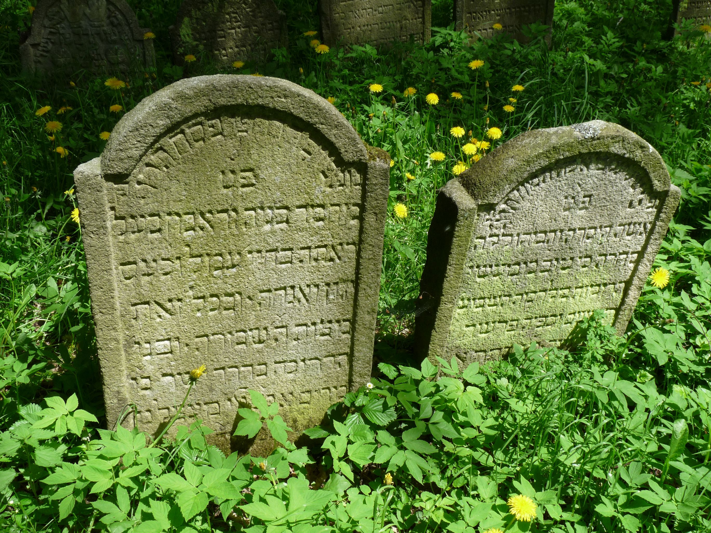 Gravestones in the Jewish cemetery in the town of Černovice, Pelhřimov District, Vysočina Region, Czech Republic.